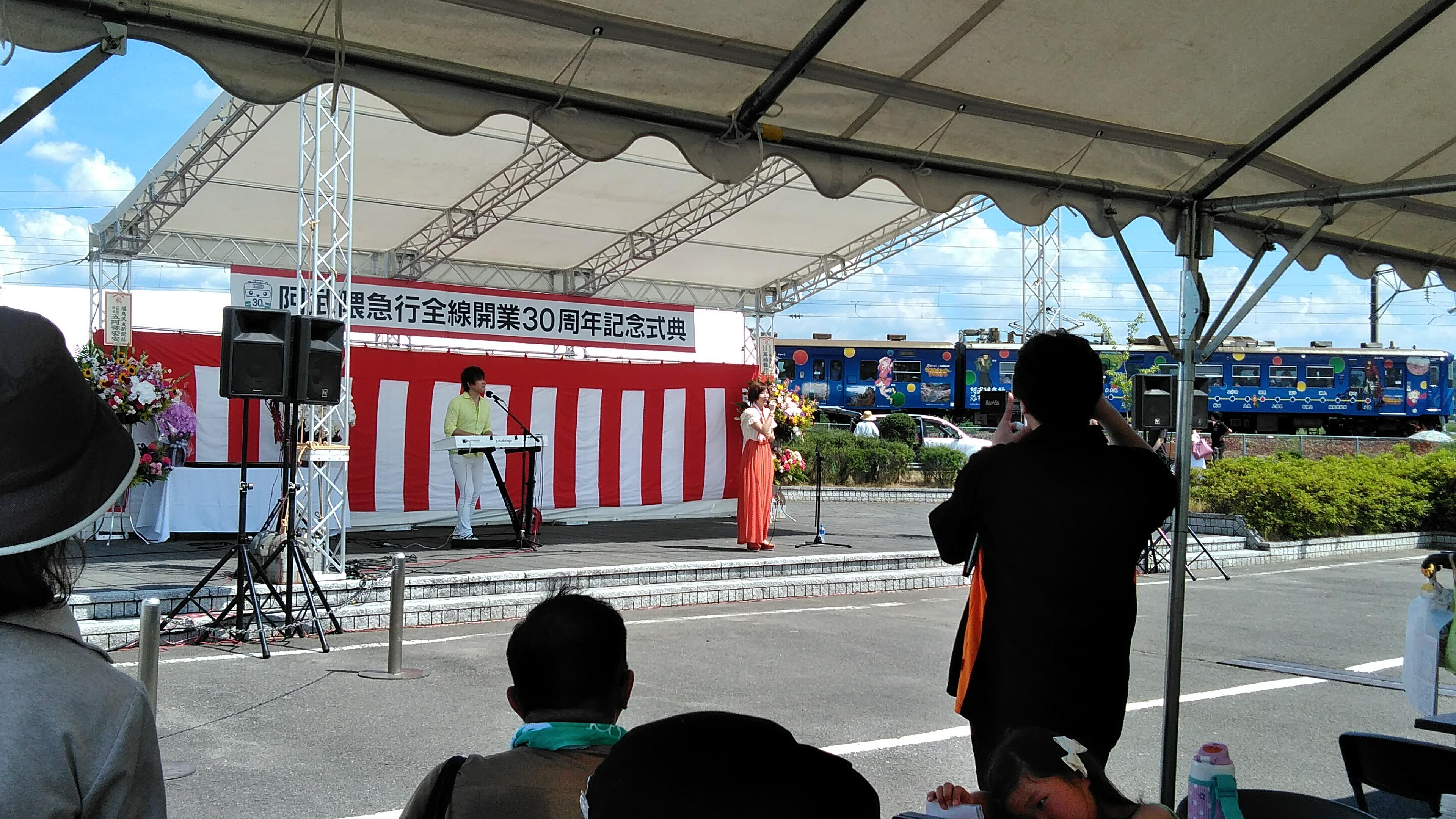 Festival celebrating the Abukuma Express Line's 30th anniversary.